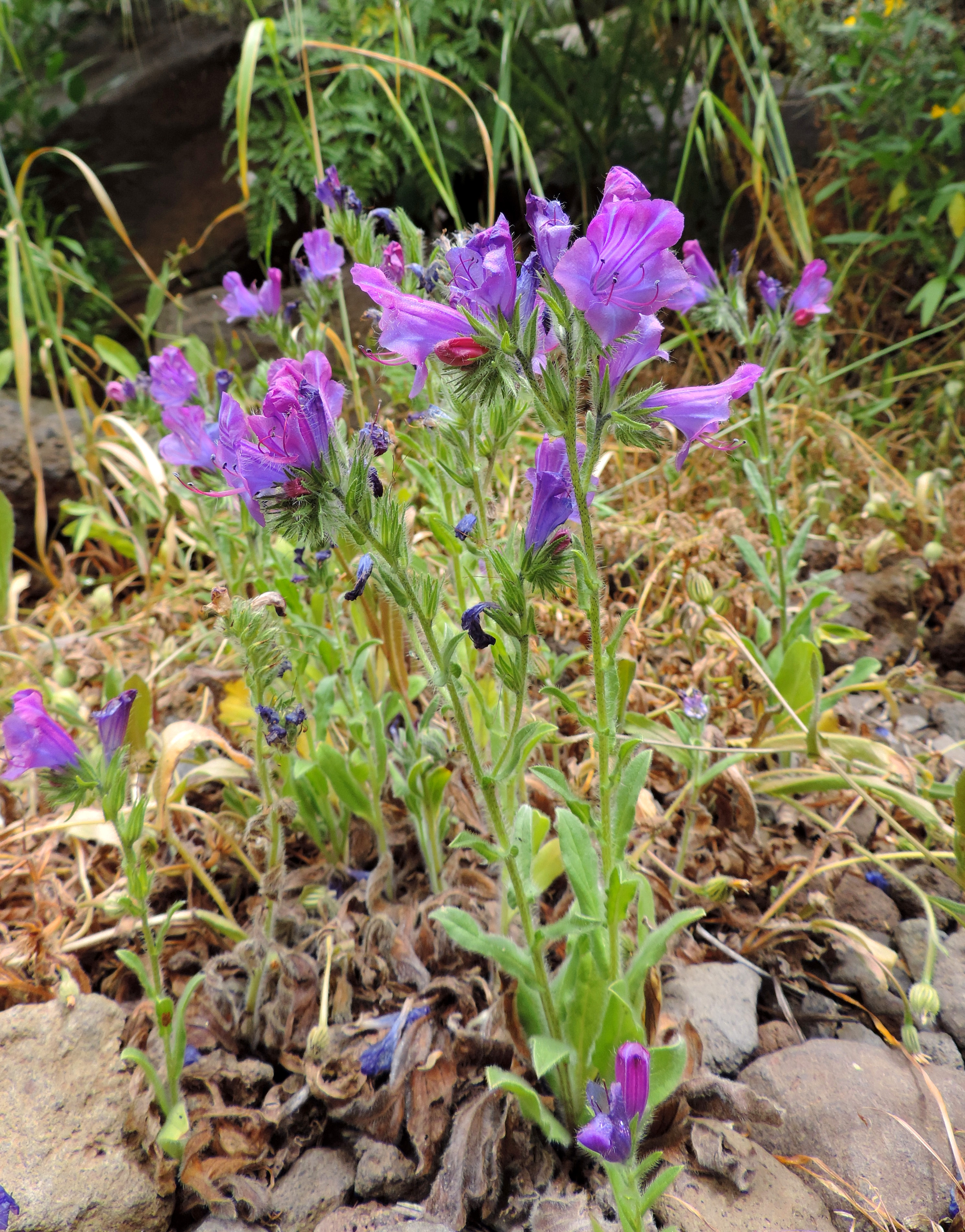 Echium plantagineum in Barranco de Guayadeque (Gran Canaria)